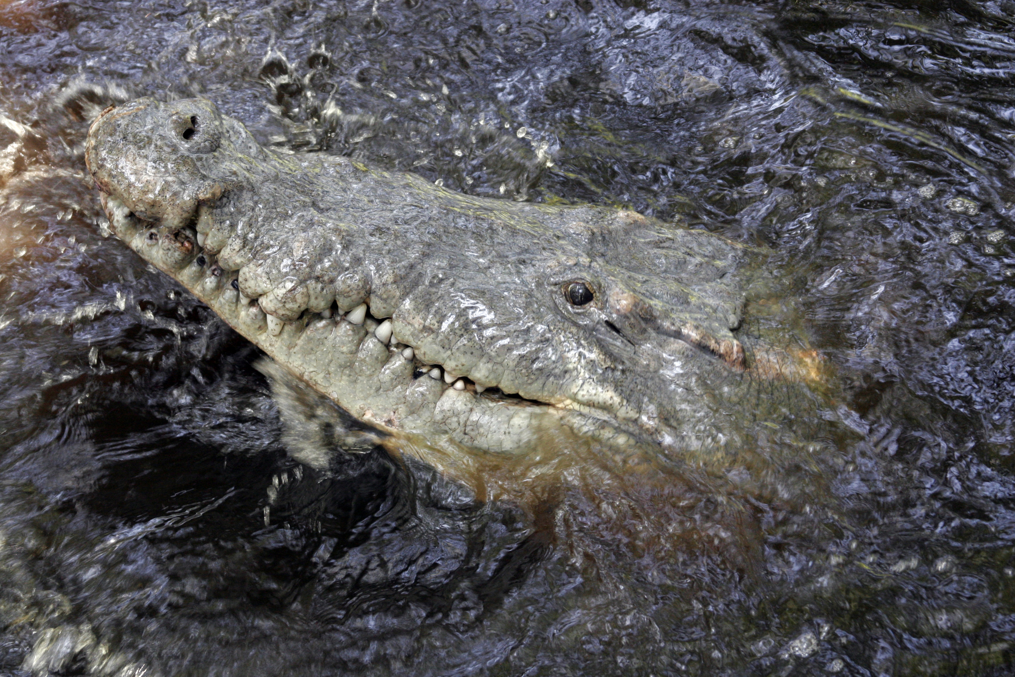 American Crocodile, photograph taken at swamp in La Manzanilla, Jalisco, Mexico. This croc measured aprox 10 feet. To attract it, water was agitated and bait placed in water (fish). Generally, they do not stick their heads out like this except when feeding, and their movements are very quick.